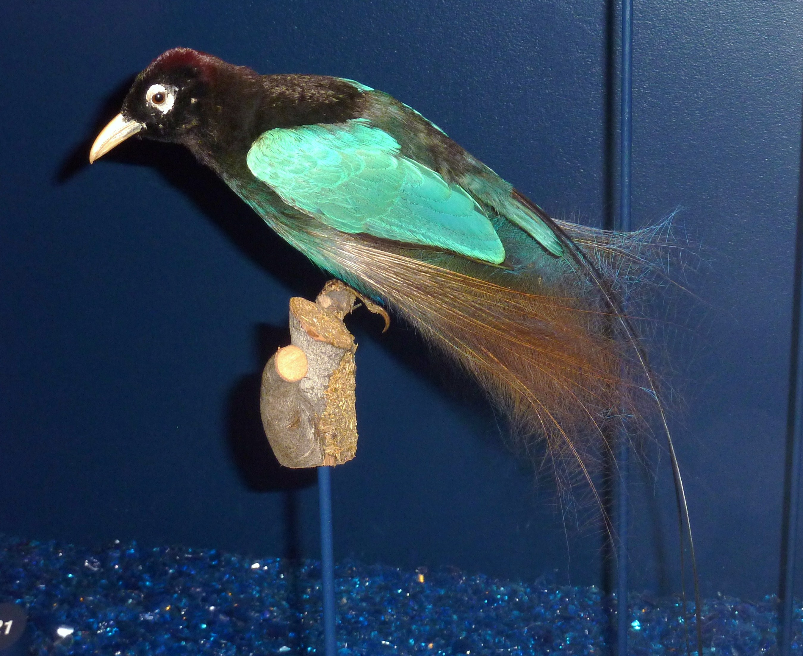 Oilbird (Paradisaea rudolphi)